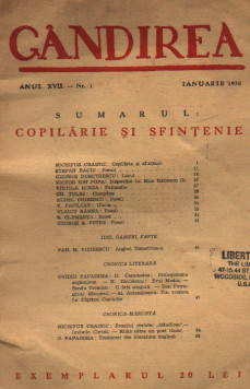 Copertagandirea